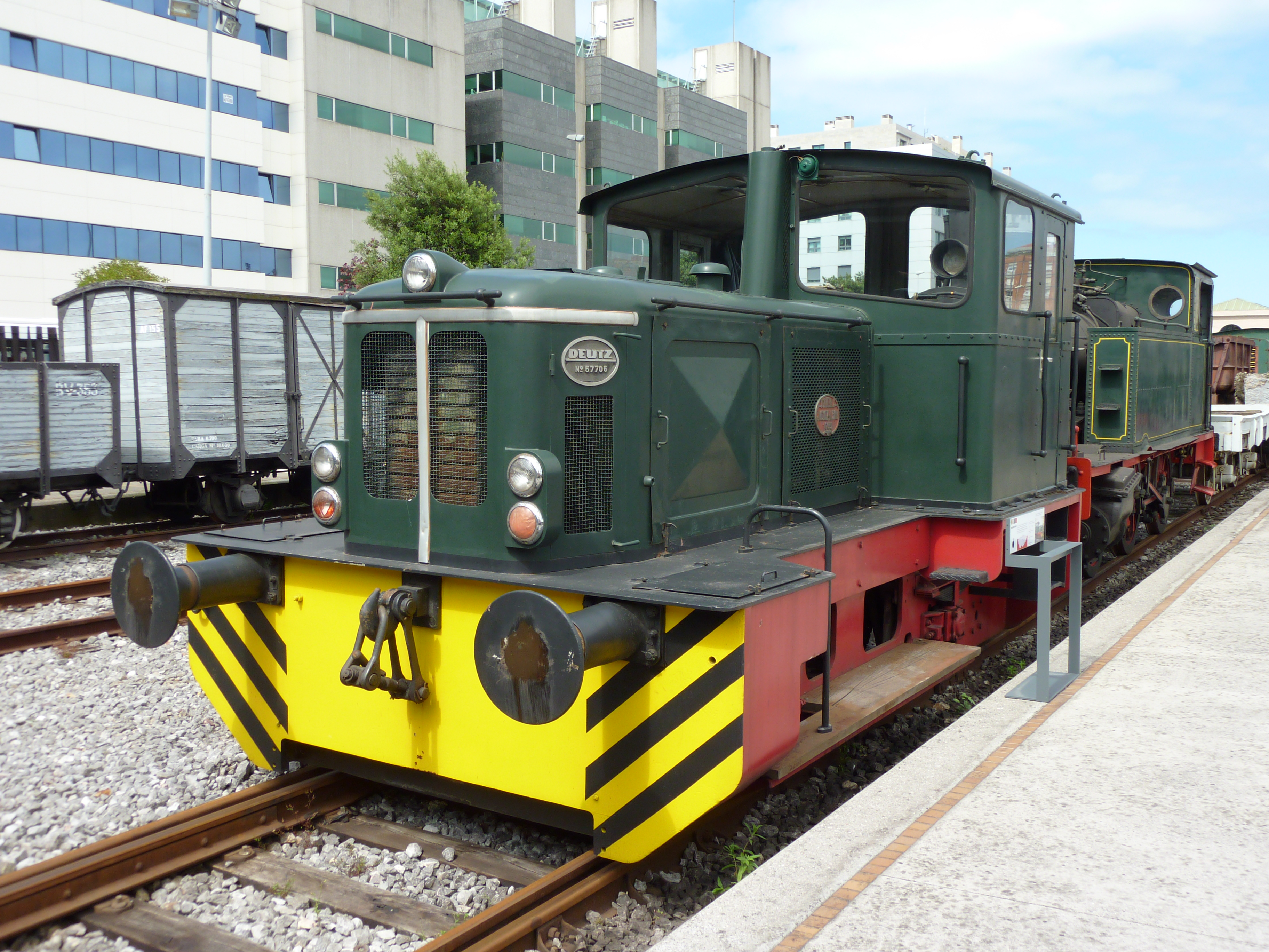 Diesel locomotive Deutz No 57706, in Asturian Railway Museum, Gijón, Asturias, Spain